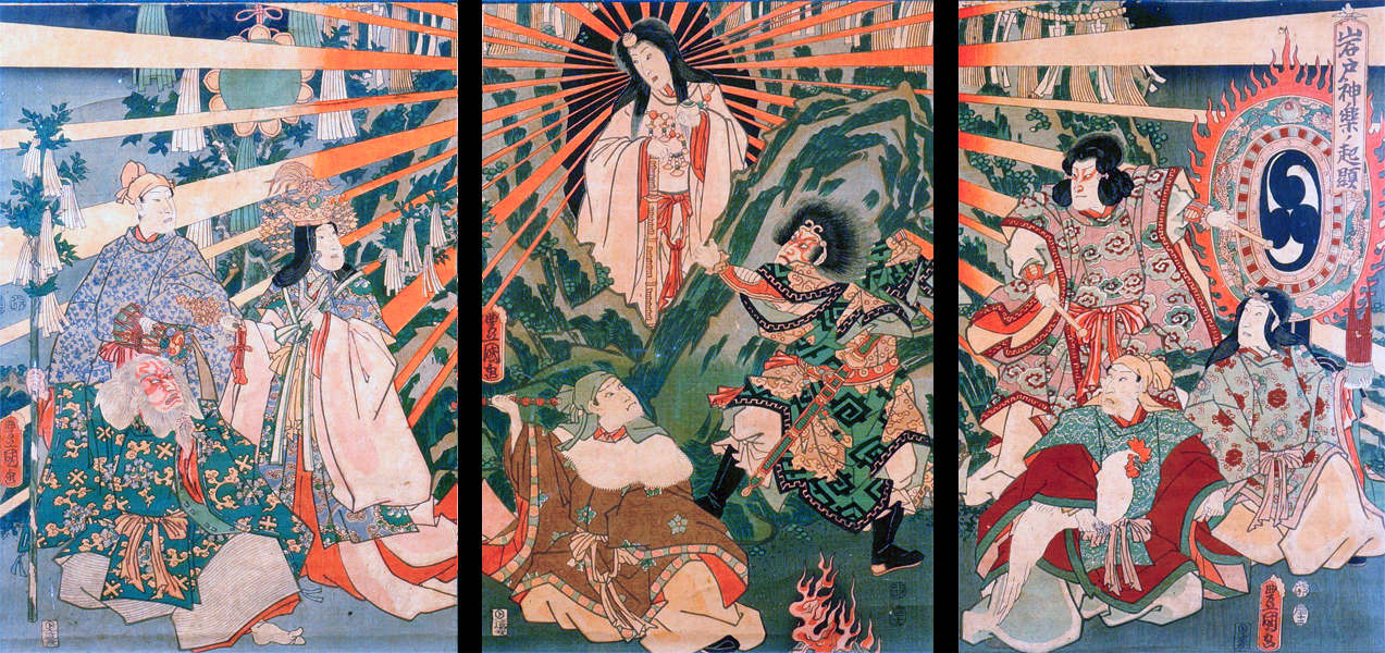 Japanese Sun goddess Amaterasu emerging from a cave.